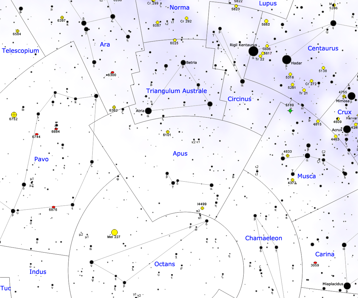 Map of Apus